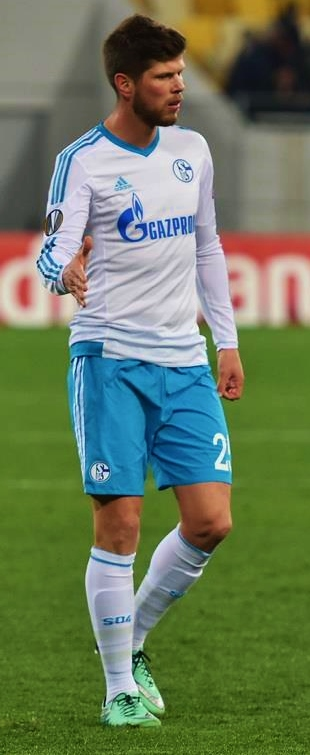 Klaas-Jan Huntelaar